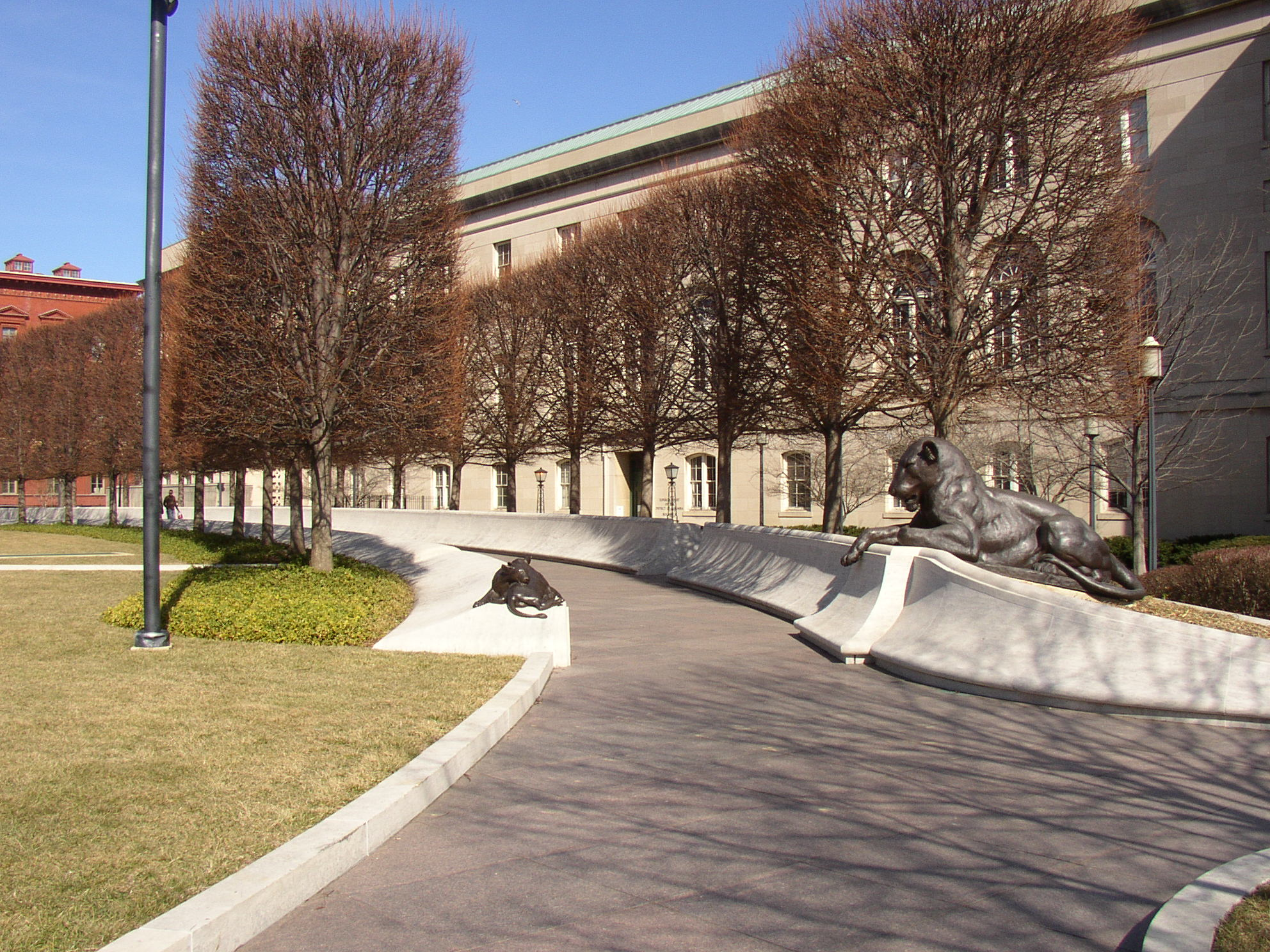 National Law Enforcement Officers Memorial showing the lioness watching her cubs. Photo taken in February 2007 by uploader. All rights released. Williamborg 00:58, 25 February 2007 (UTC)